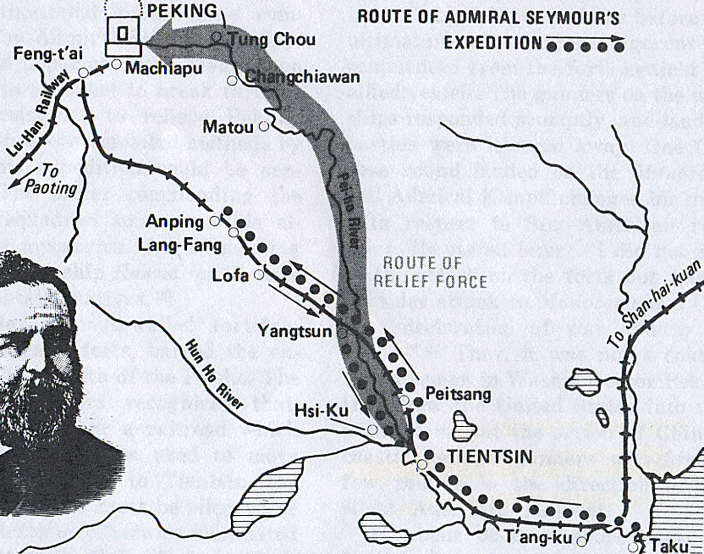 A map of military operations in northern China in 1900